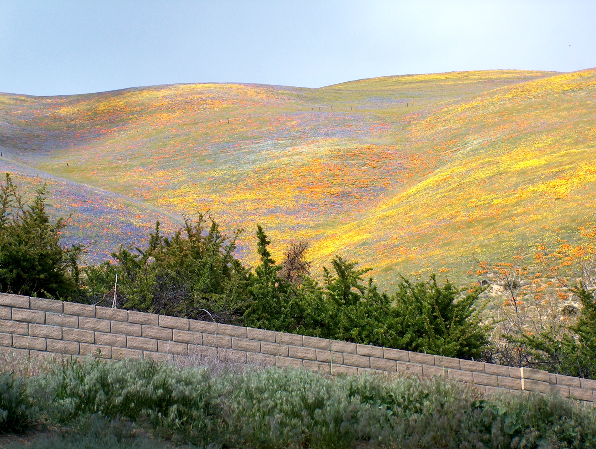 Hillside of native California wildflowers on the Tehachapi Mountains — above Gorman and I−5, near Tejon Pass in Kern County, Southern California.